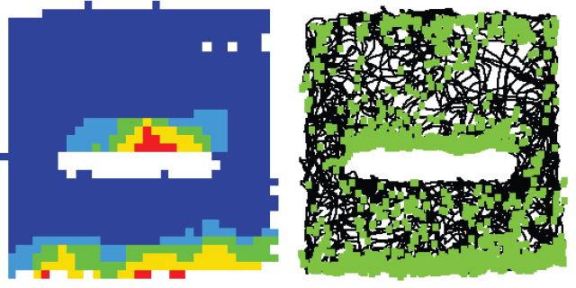 Firing of a boundary cell recorded in rat subiculum in 1 x 1 metre square-walled box with 50cm-high walls. A 50cm-long barrier inserted into box elicits second field along north side of barrier in addition to original field along south wall. Left: Firing rate map, one of 5 colours in locational bin indicates spatially-smoothed firing rate in that bin (autoscaled to firing rate peak, dark blue: 0-20%; light blue: 20-40%; green: 40-60%; yellow: 60-80%; red: 80-100%. The maximum firing rate is 14.2 Hz). Right: path taken by rat is shown in black, locations where spikes were recorded indicated by green squares. Data provided by Sarah Stewart and Colin Lever with permission. See Hartley et al (2014) and Stewart et al (2014) in Philosophical Transactions B, volume 369 for further information. If you use the work you should cite one or both of these articles as appropriate (academic publications)